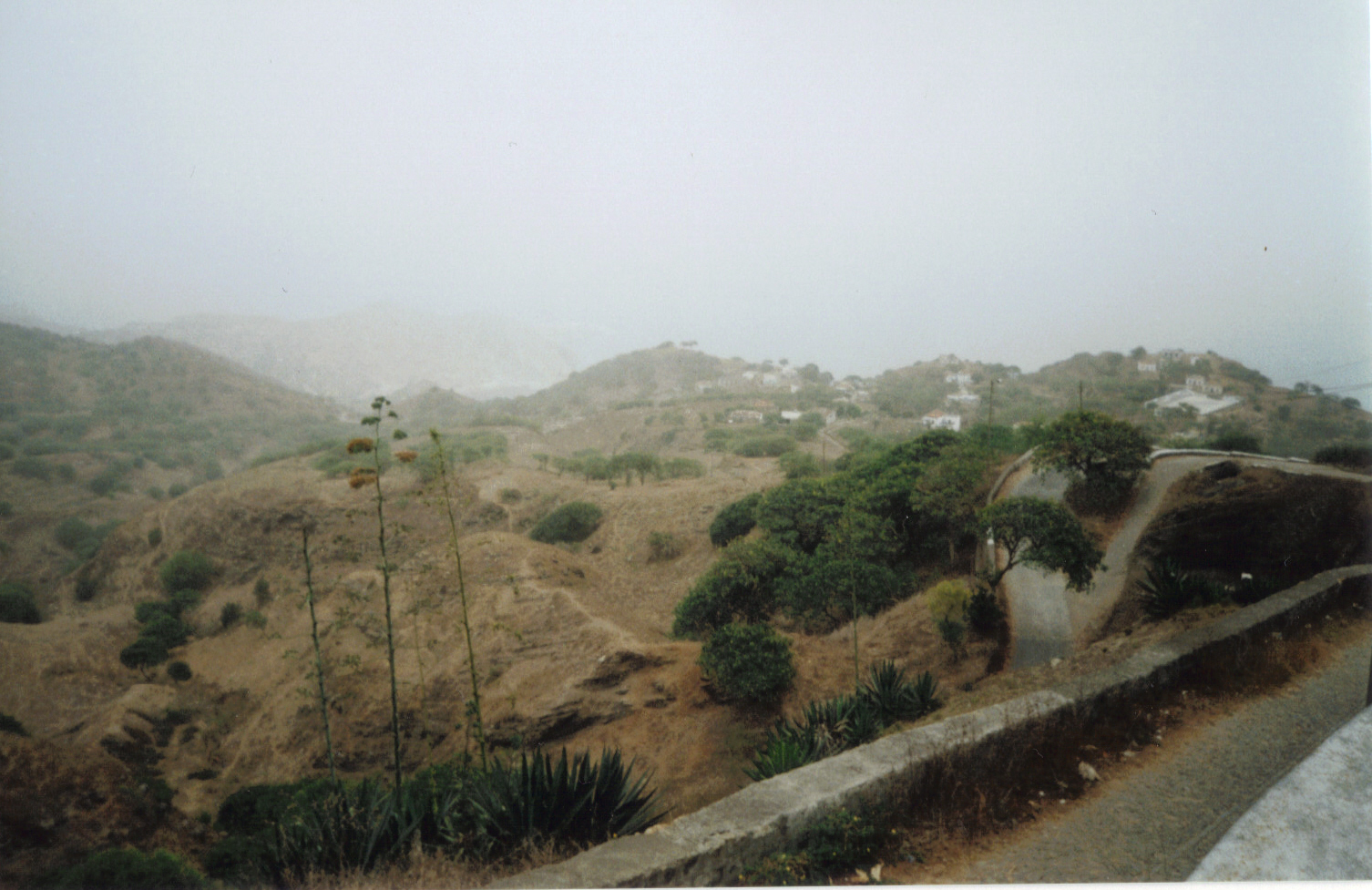 General view of Santa Bárbara, ilha Brava, Cabo Verde.